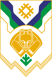 Syktyvkar (Komia), coat of arms (1993)